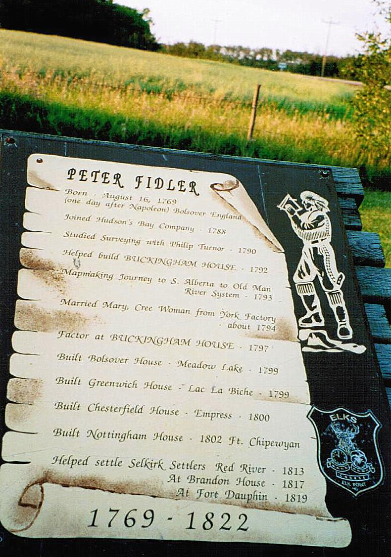 Located at the north end of Elk Point, Alberta on Highway 41 is the Carved Statue of Hudson’s Bay Surveyor Peter Fidler 32 feet high by 8 feet wide Carved with Chain Saw by Herman Poulin for Elk Point’s 1992 Bicentennial Project of the Fort.